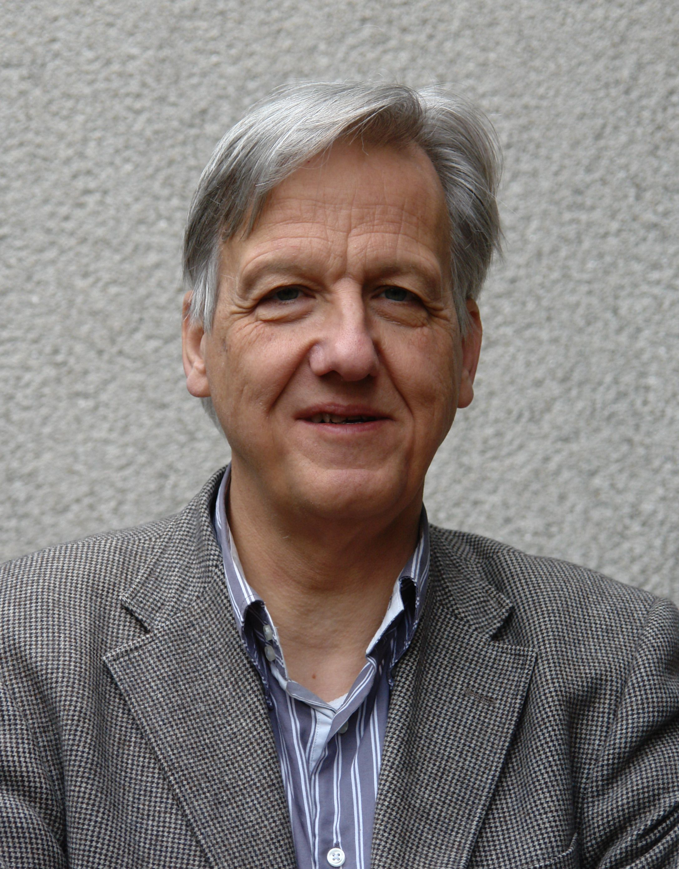 Headshot photo of Laurens W. Molenkamp, 2012